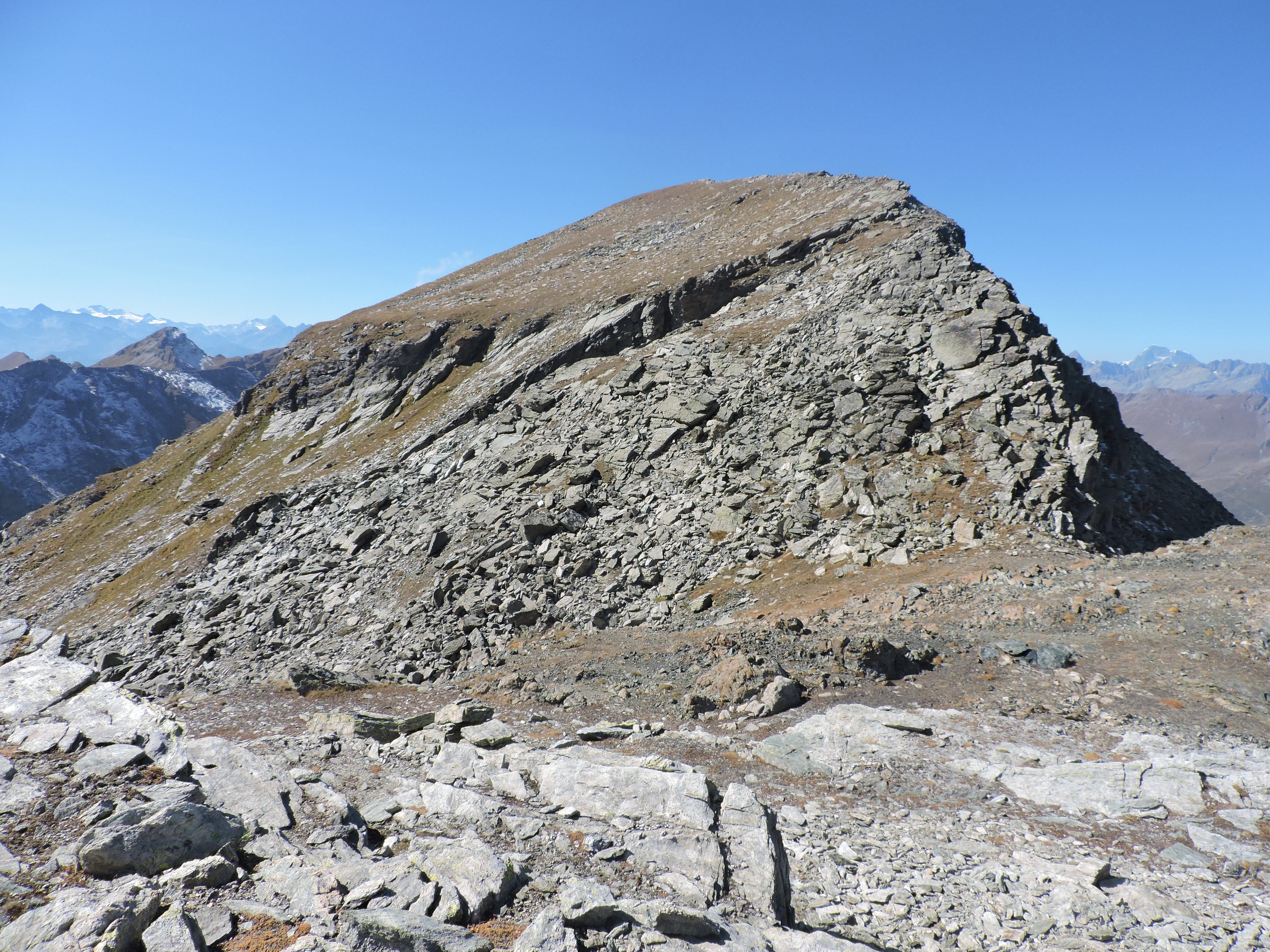 Monte Perrin (Pennine Alps, Italy): N view